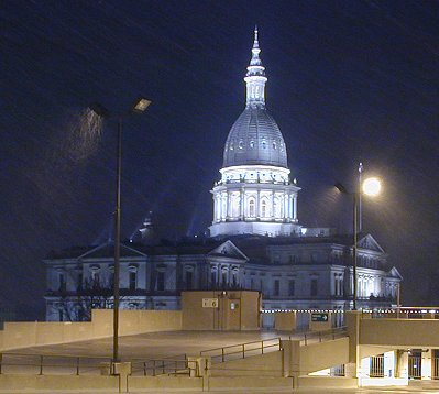 Michigan State Capitol